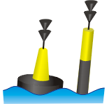 South cardinal mark in IALA system.